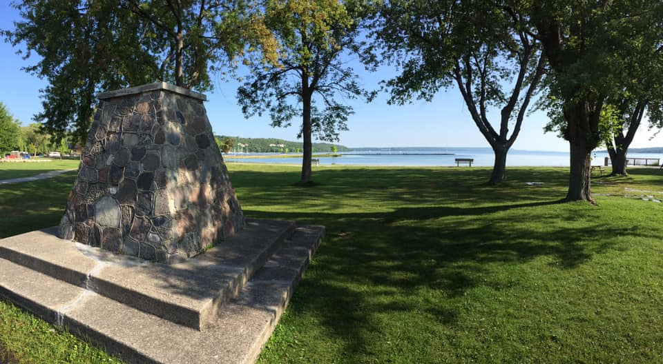 William Wilfred Campbell Cairn In Bluewater Park - Donated by the Wiarton Women's Institute